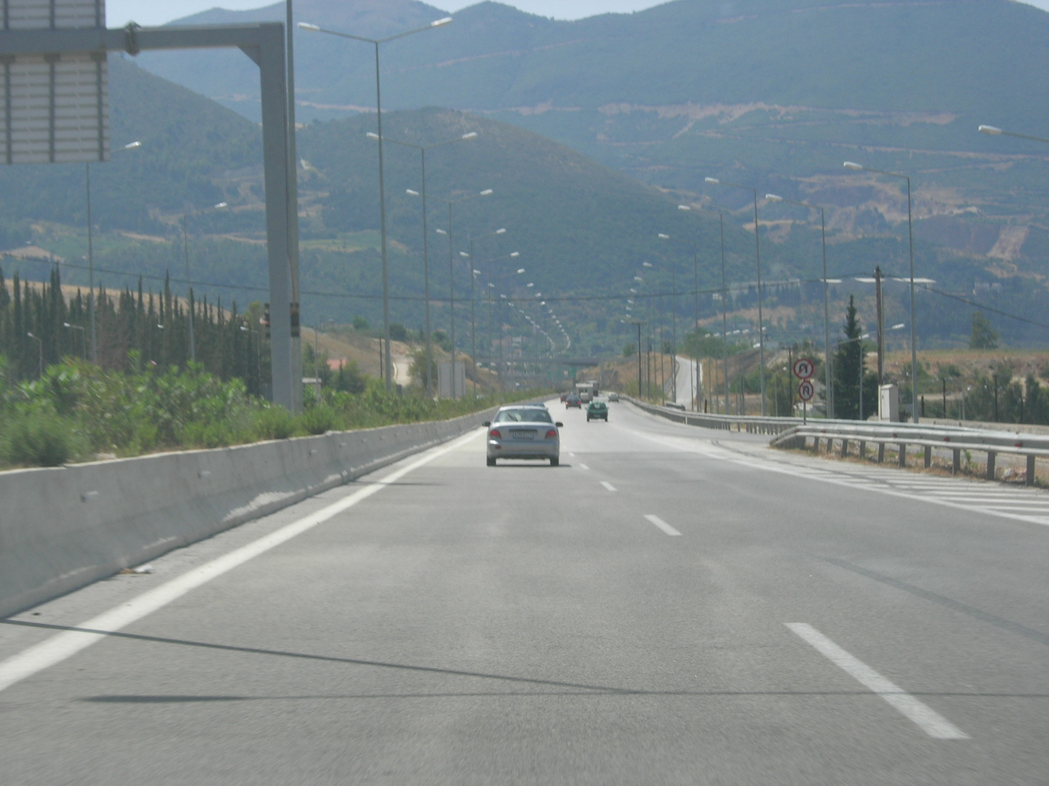 Patras bypass, part of Ionia Odos